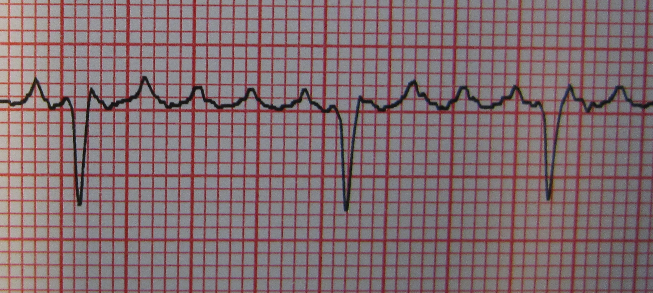 Atrial flutter with variable block ( between 3 and 4 to 1 )